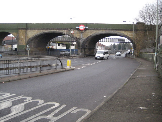 Brent Cross: Northern Line viaduct over the A406 North Circular Road The viaduct was completed in 1924 to carry the then Charing Cross, Euston and Hampstead Railway's extension to Hendon over the valley of the River Brent. The line was subsequently extended to Edgware and was subsumed into London Undeground's Northern Line. The far arch on the left is one through which the river flows. Looking at old Ordnance Survey maps of the area the railway is conspicuously entirely missing from the 1938 Edition leaving just a blank white swathe through the detail of the housing estates. Was this a security precaution to camouflage a bombing target in view of the impending hostilities of the Second World War? The slip road coming up from the North Circular leads to the A41 and Brent Cross, while a speed camera is just visible by the right side of the right hand arch to reinforce the 40mph limit on the road.